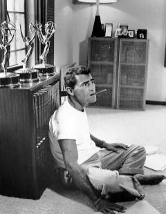 Photo of Rod Serling relaxing at home.